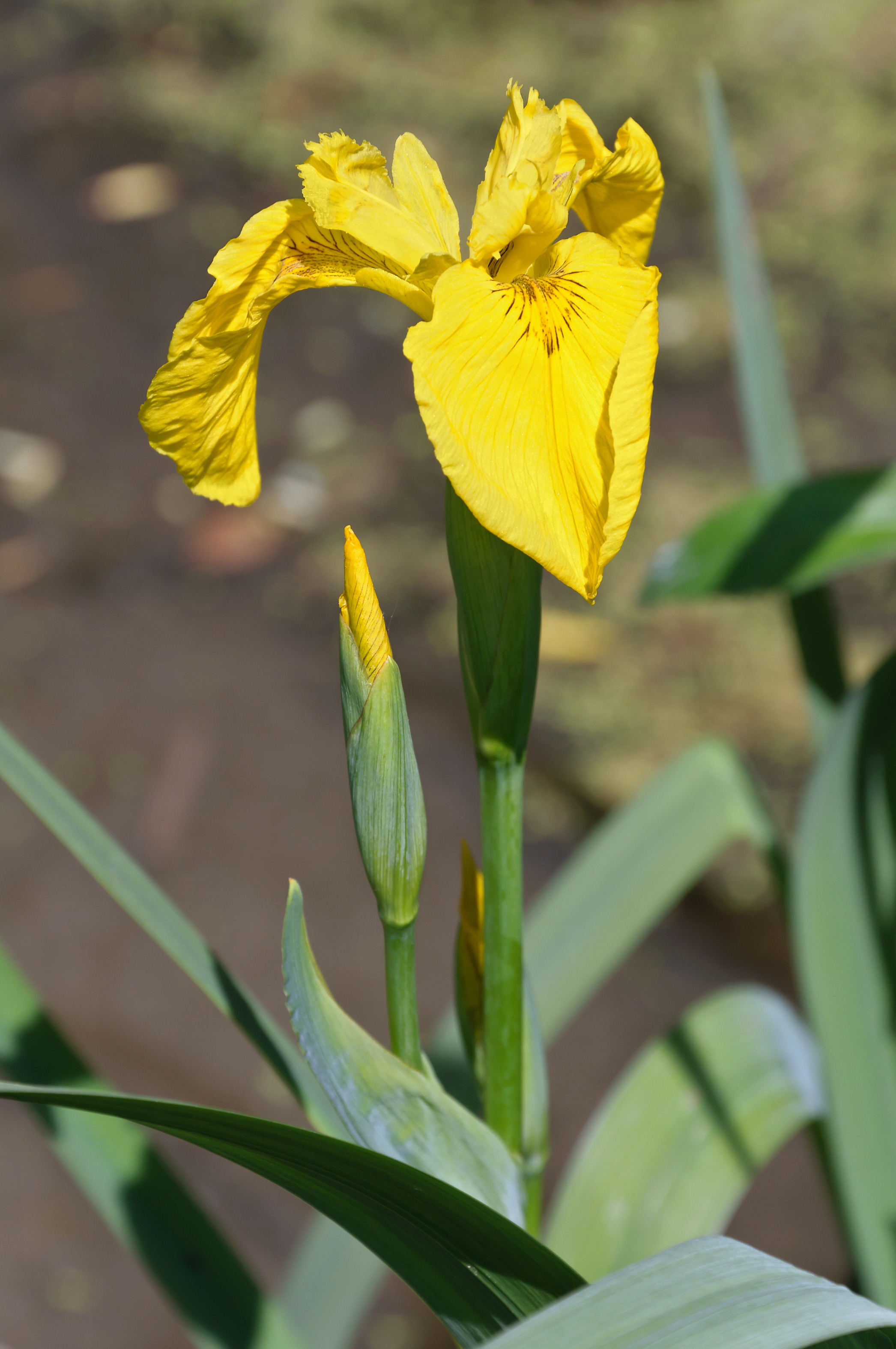 Yellow flag iris in Bagneux, Hauts-de-Seine, France.